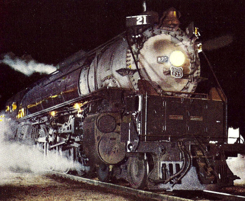 Magazine ad from Union Pacific Railroad during WWII. The company asked the patience and understanding of its civilian passengers, as there were many persons in the military who needed to travel and had priority due to wartime. The locomotive pictured is an FEF-2, number 825.